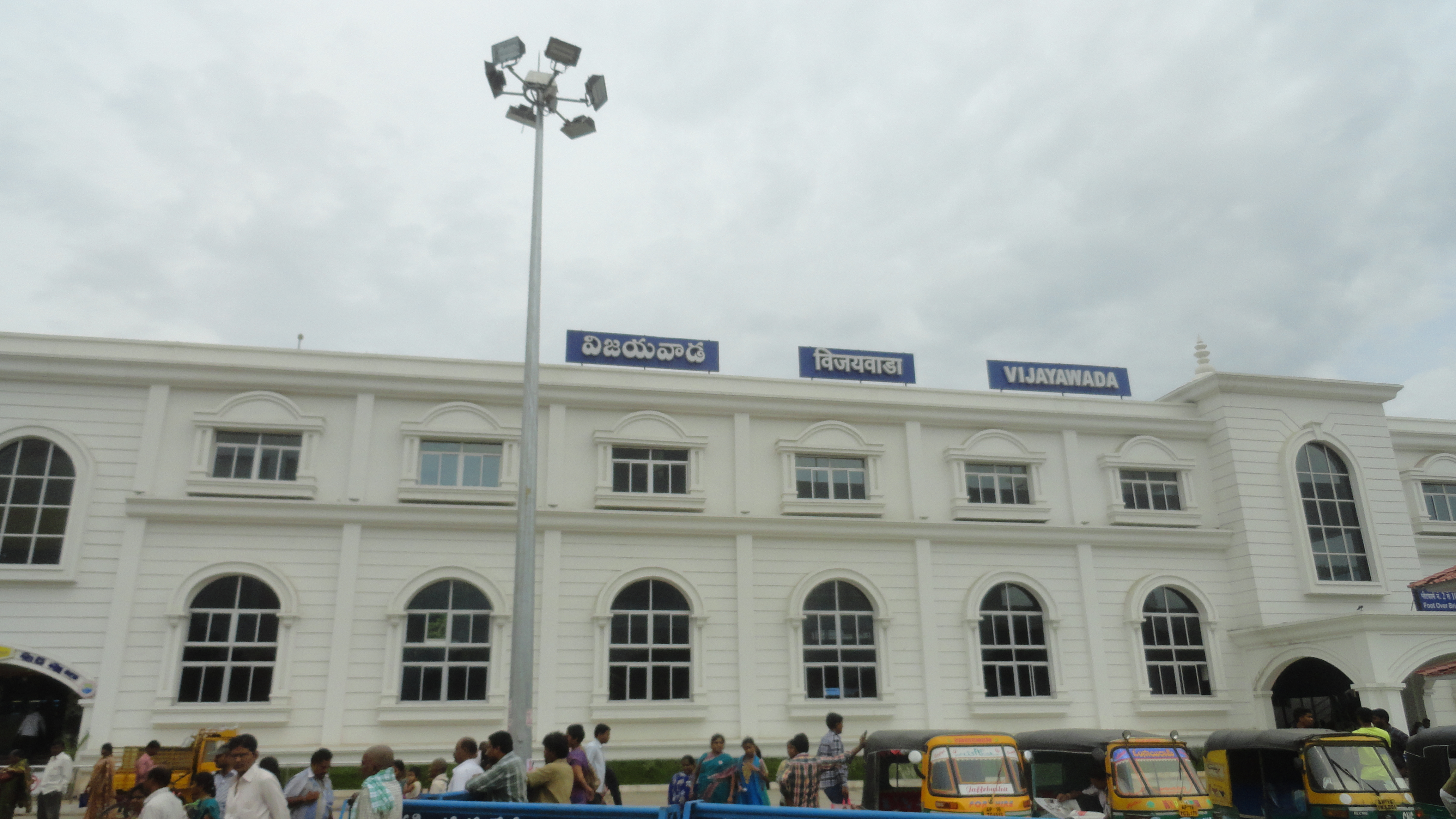 vijayawada railway station